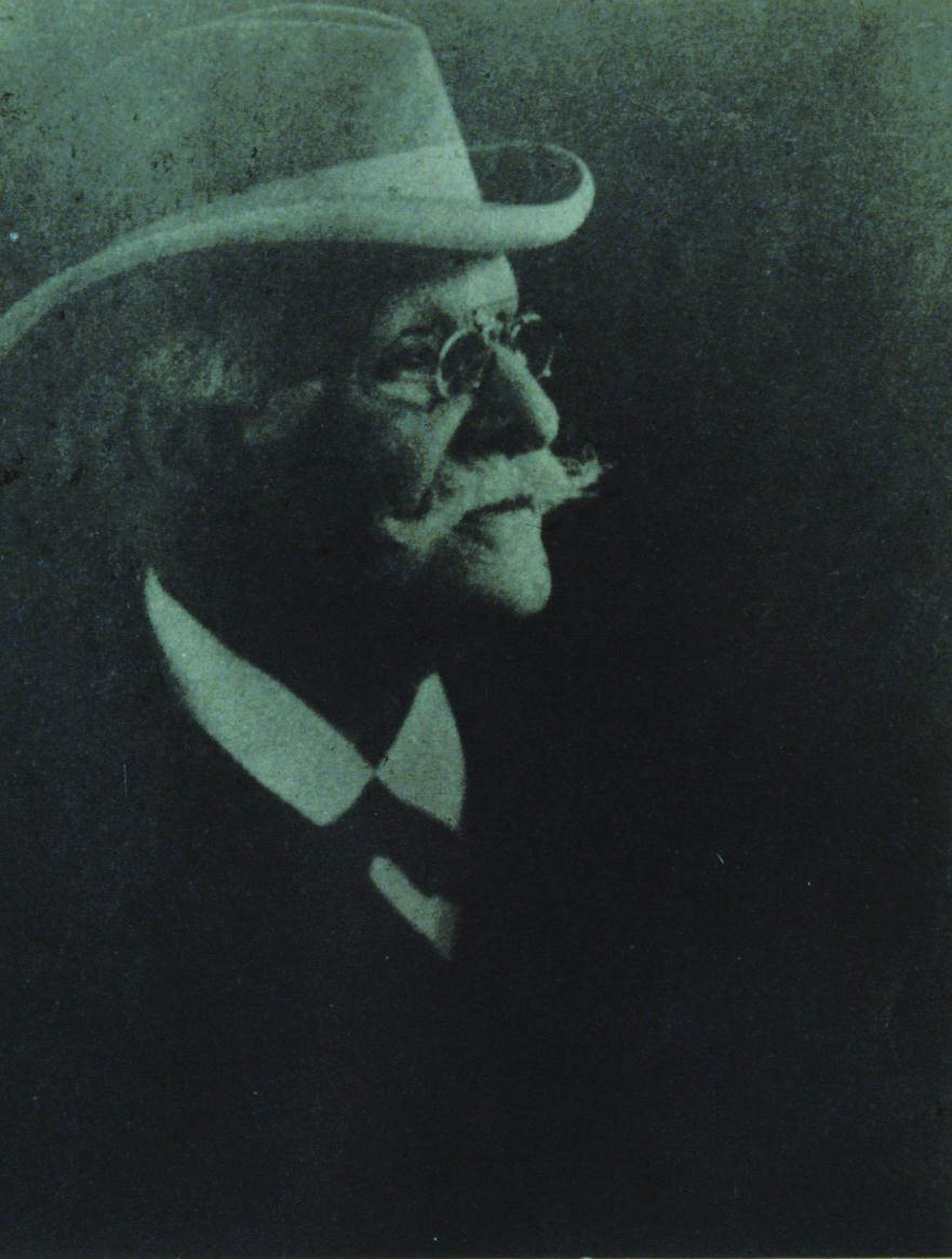 Émile Waldteufel